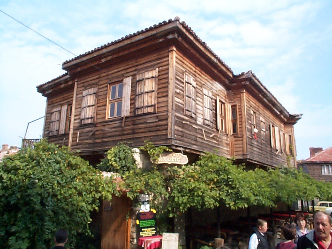 Wooden houses in Nesebar, Bulgaria.